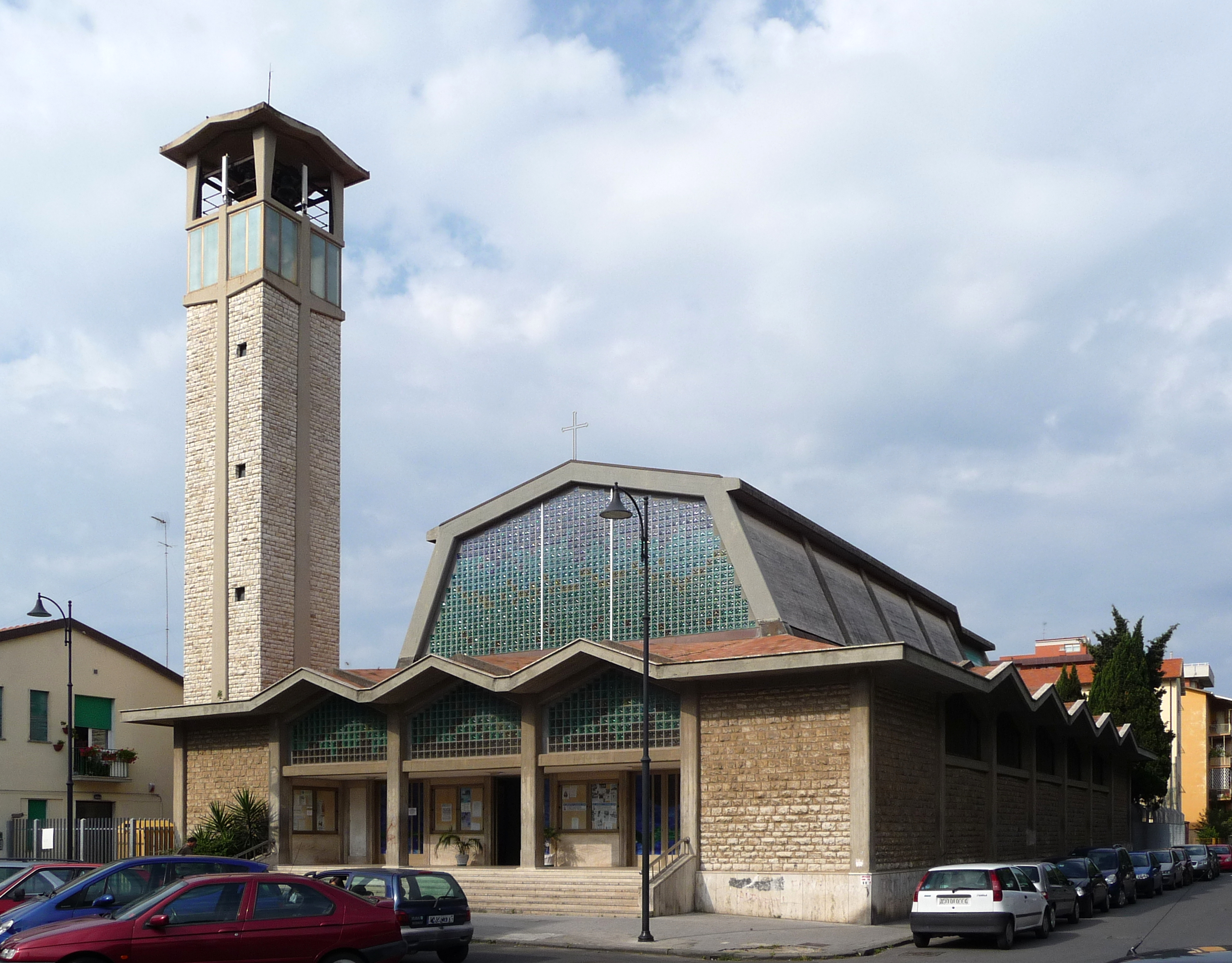 Church "Sant'Agostino", Livorno, Italy